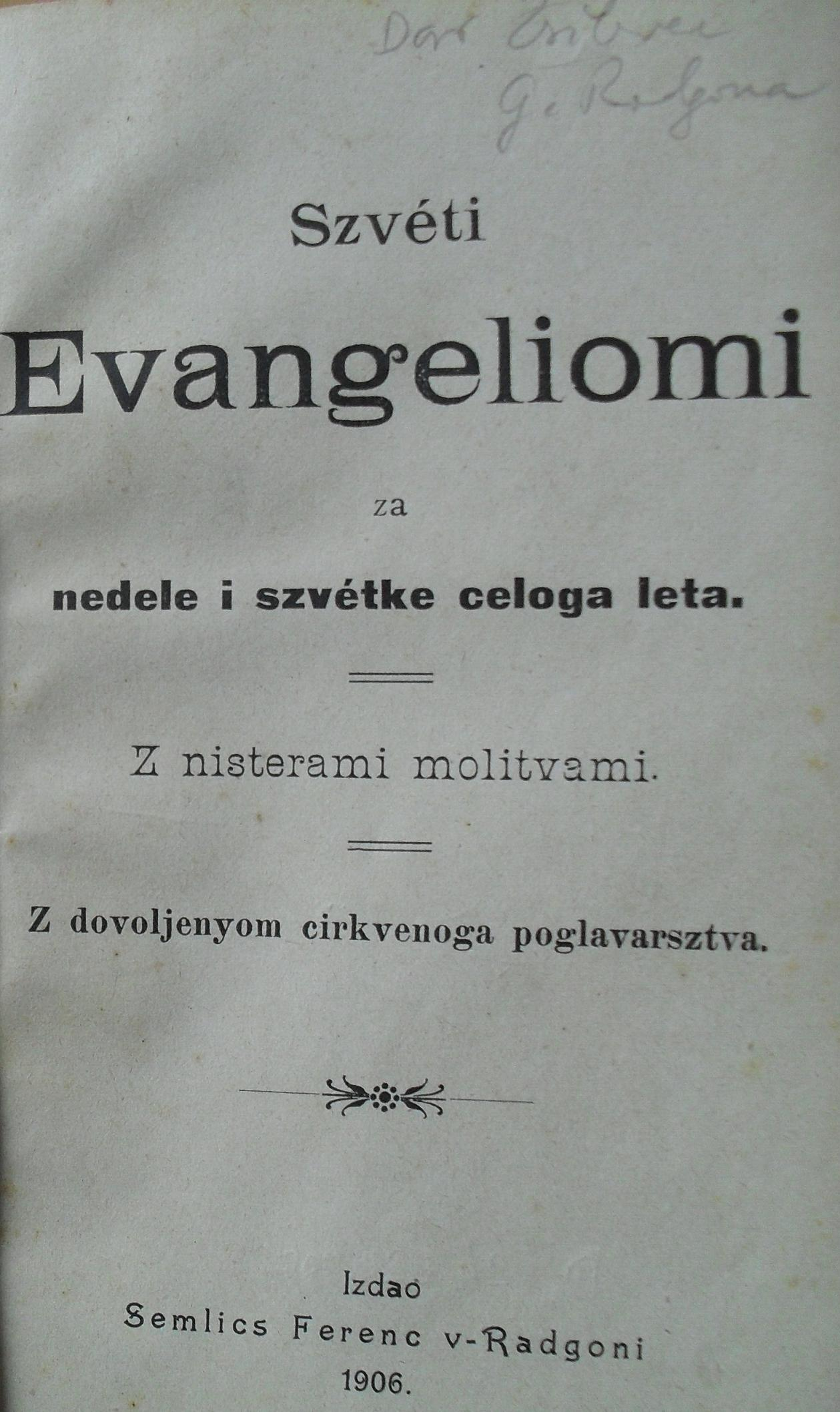 The prekmurian Szvéti evangeliomi (Holy Gospels), reprint of the Szvéti evangyeliomi from 1780. Rework József Szakovics.